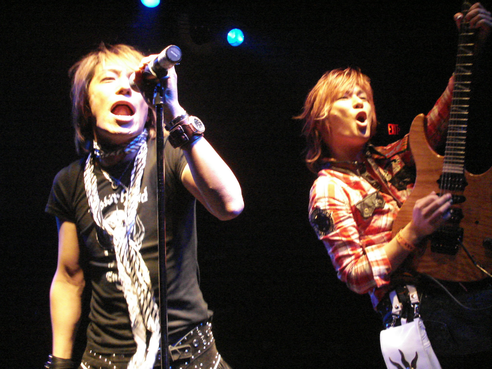 Yoffy (left) and Imajo of Psychic Lover perform at Akibafest J-Pop Halloween Concert Ball on October 29, 2007, in Springfield.